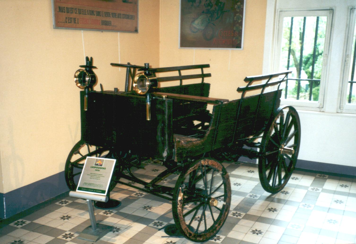 Laspougeas 1896